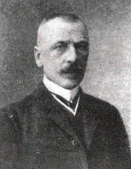 Architect Adolph Erichson - early 20th century.